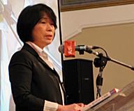 Lung Ying-tai